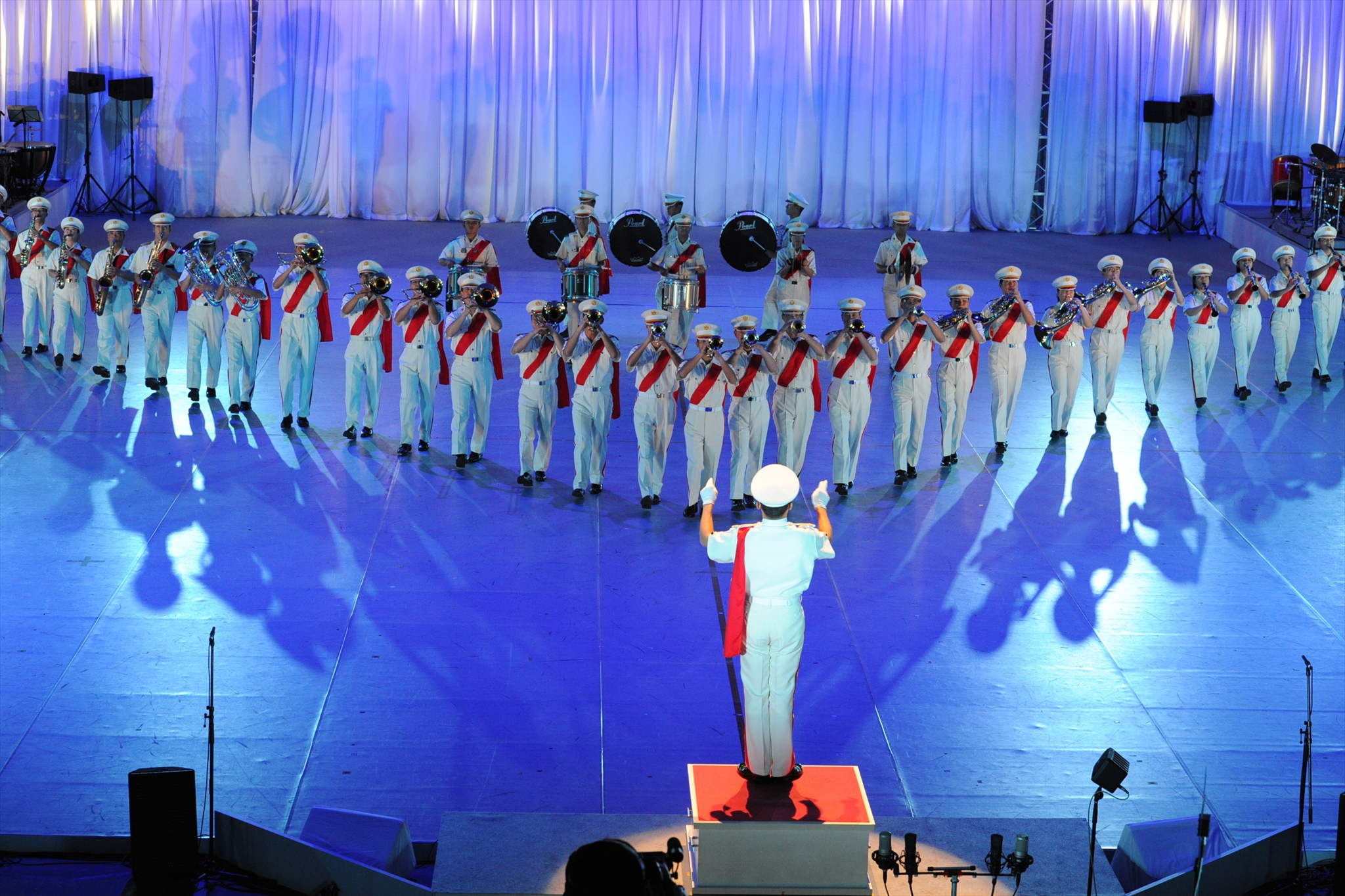 Title HAR_2967_R.JPG Album 自衛隊音楽まつり 平成２４年度自衛隊音楽まつり 第一章「始点」 中部方面音楽隊ドリル演奏